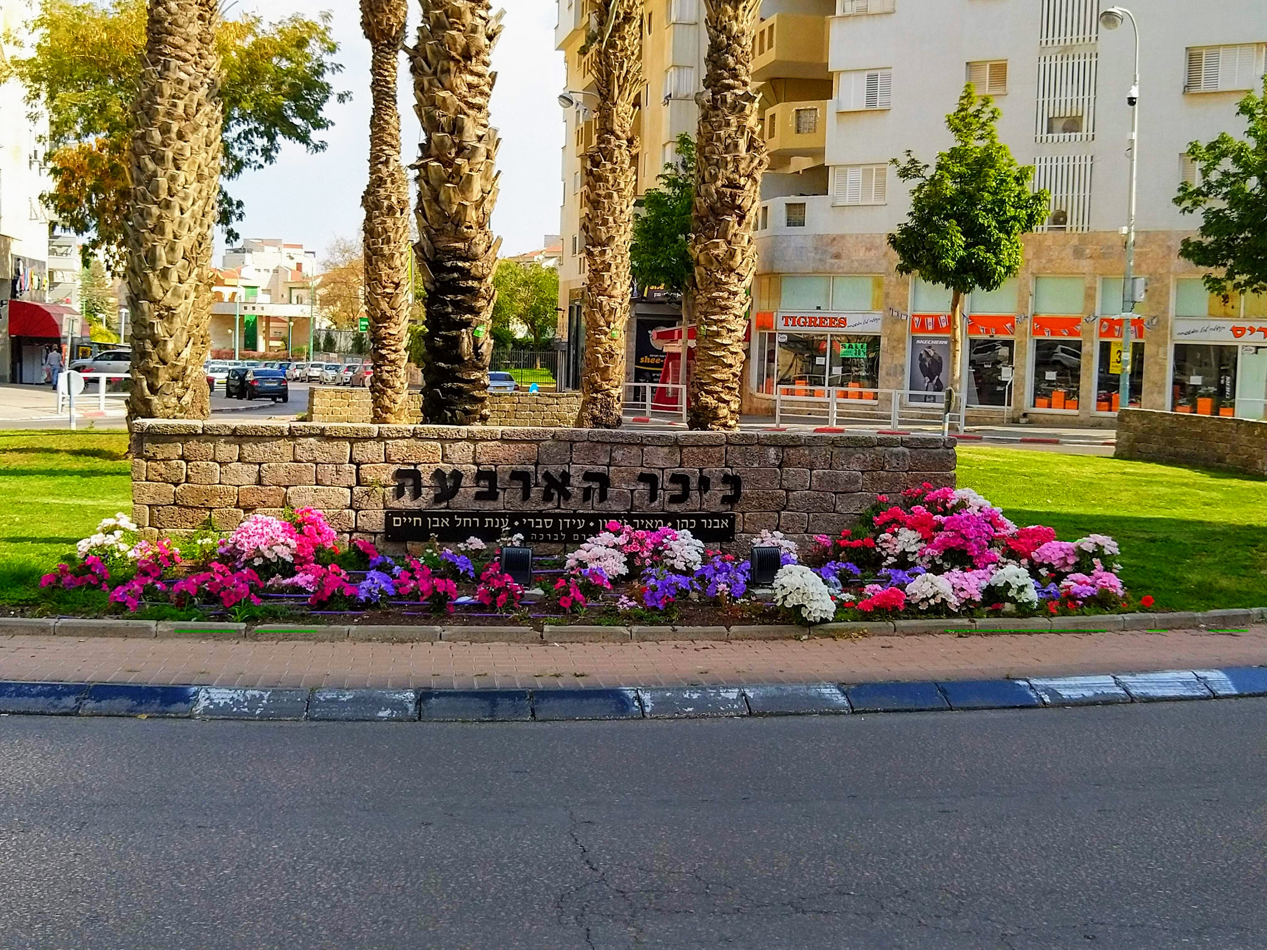 HaArbaa (the four) Square in Beer Sheva, Israel. In memory of the four victims of a bank shooting in Beersheba, Israel, 2013